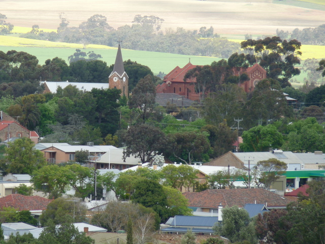 The Anglican & Catholic Churches from Gundry's Hill lookout at the north west of Kapunda